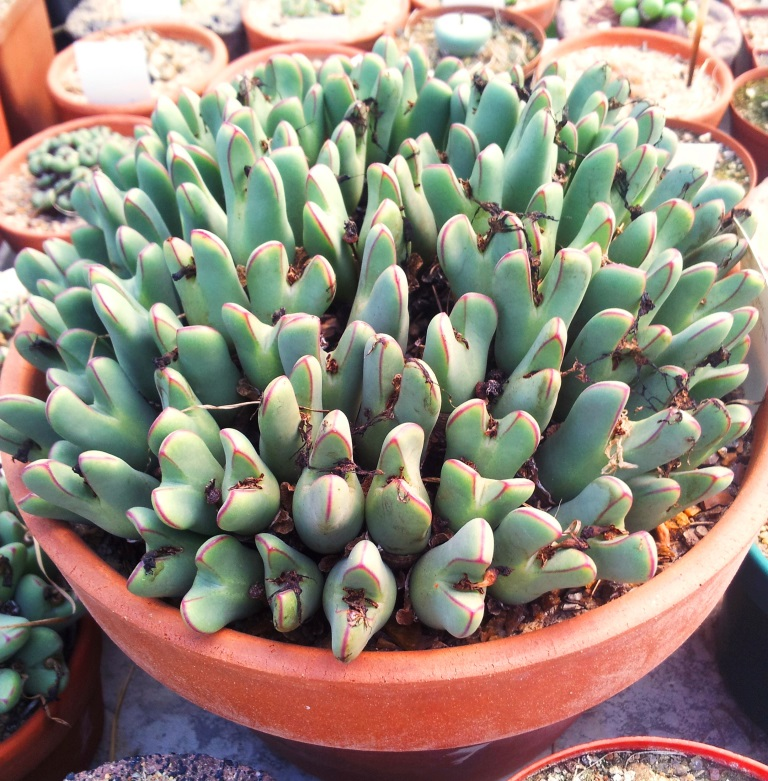 Conophytum bilobum - RSA